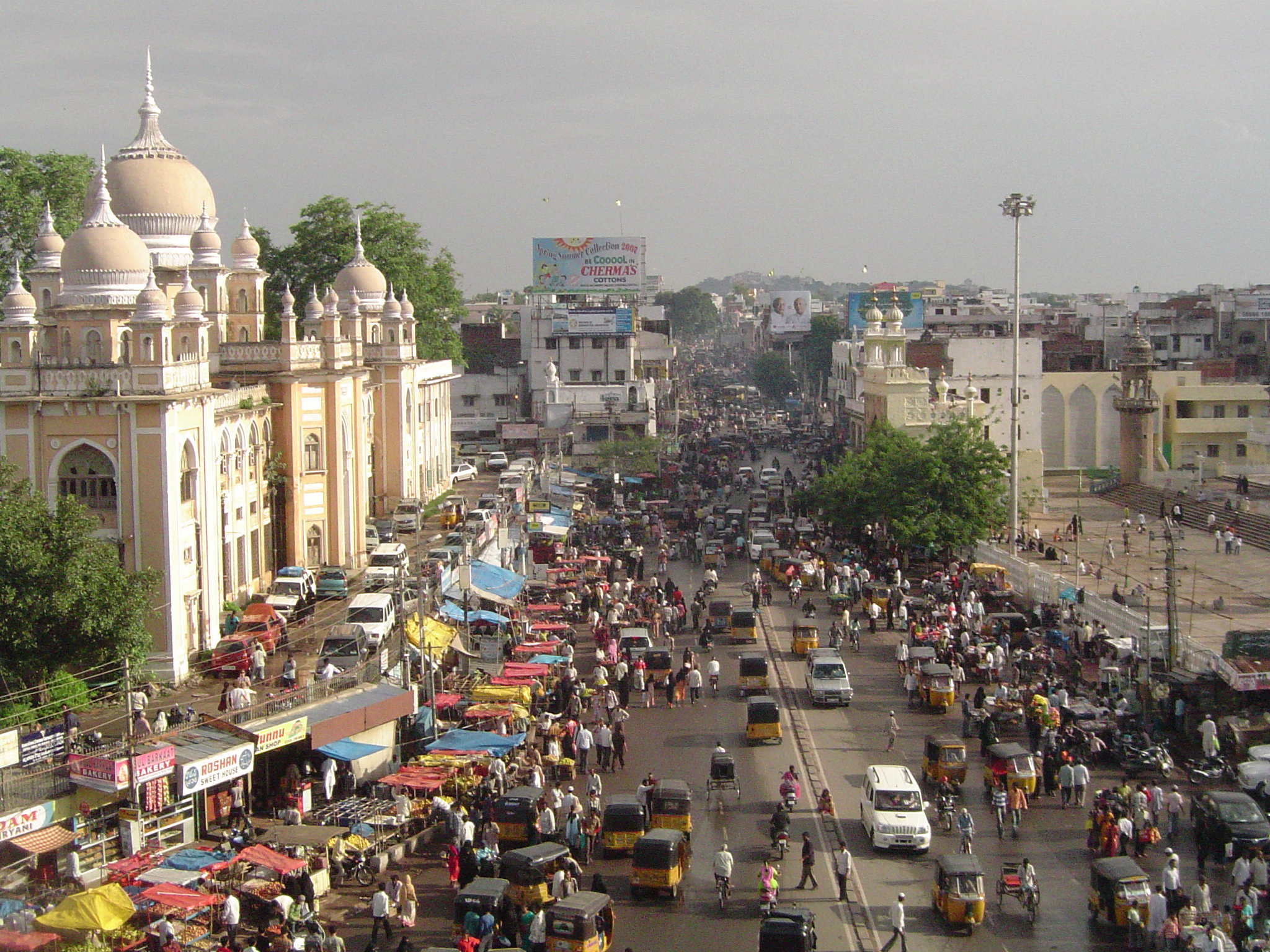 Hyderabad seen from the Char Minar, the Nizam's Medical College to the left and the Mecca Masjid to the right